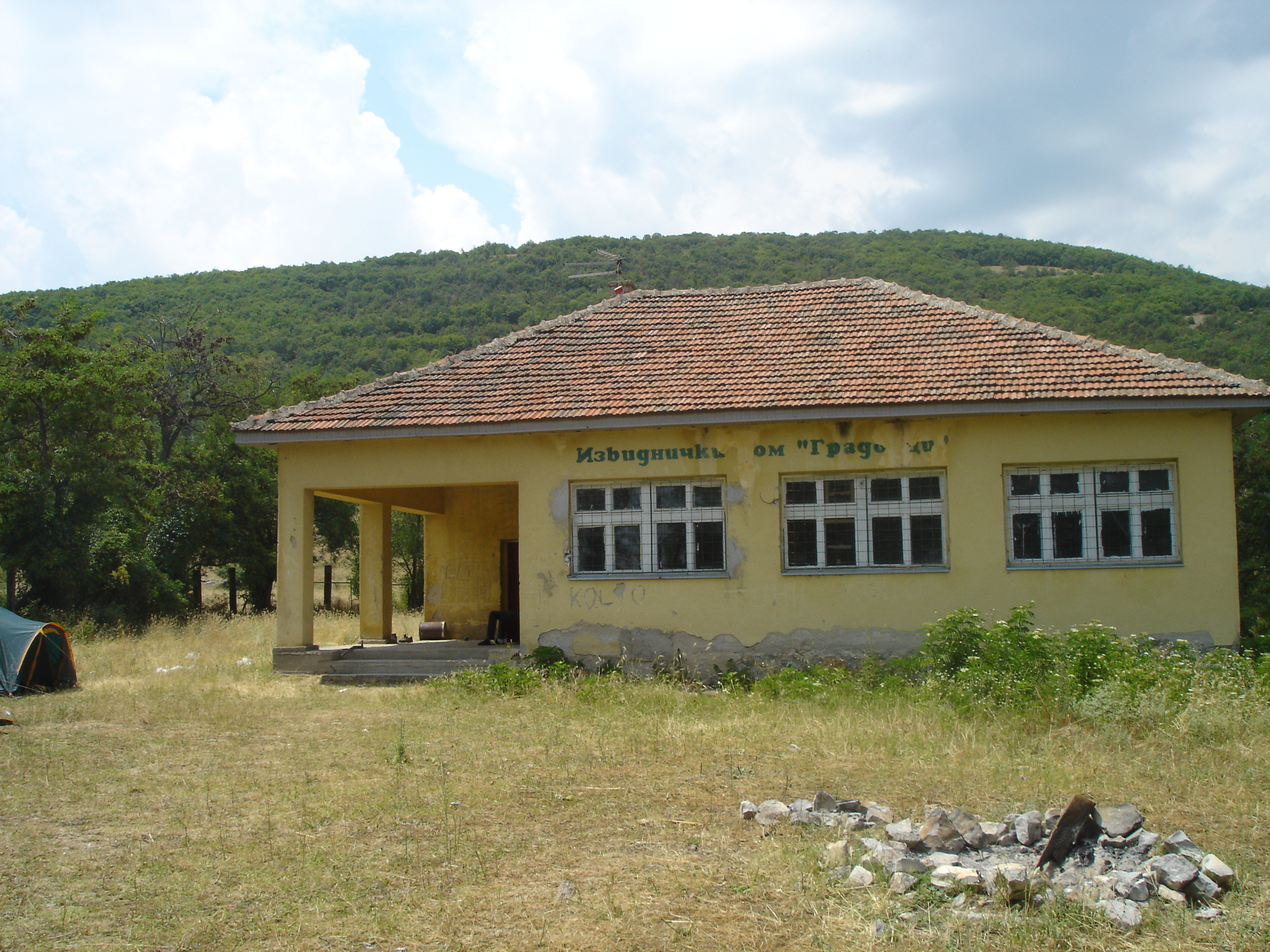 Scouts hut in Gradovci, Macedonia